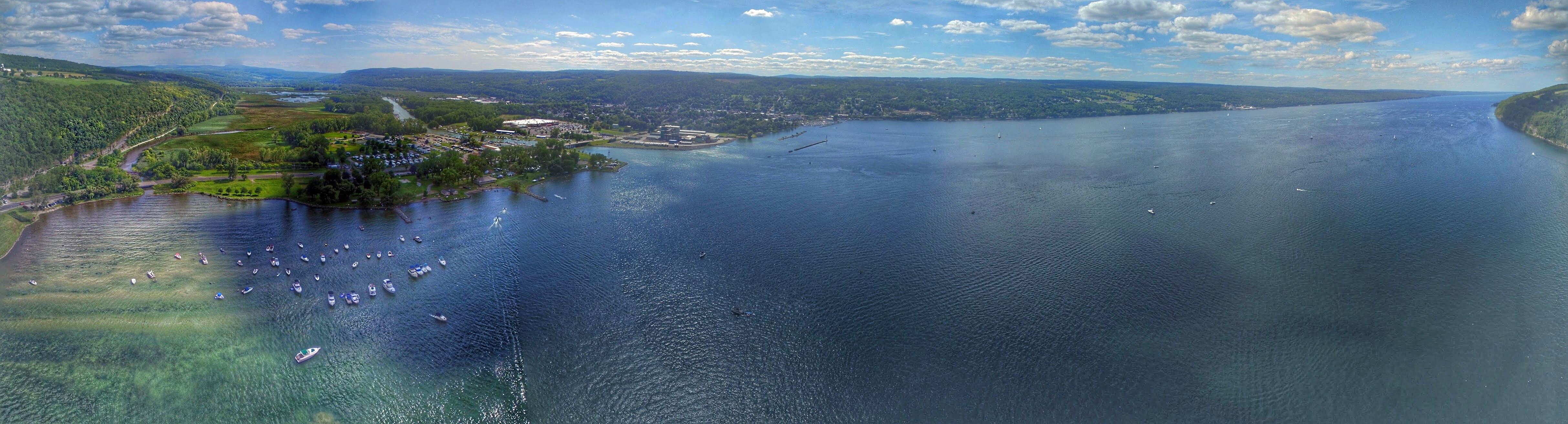 Aerial Panoramic of the southern part of Seneca Lake